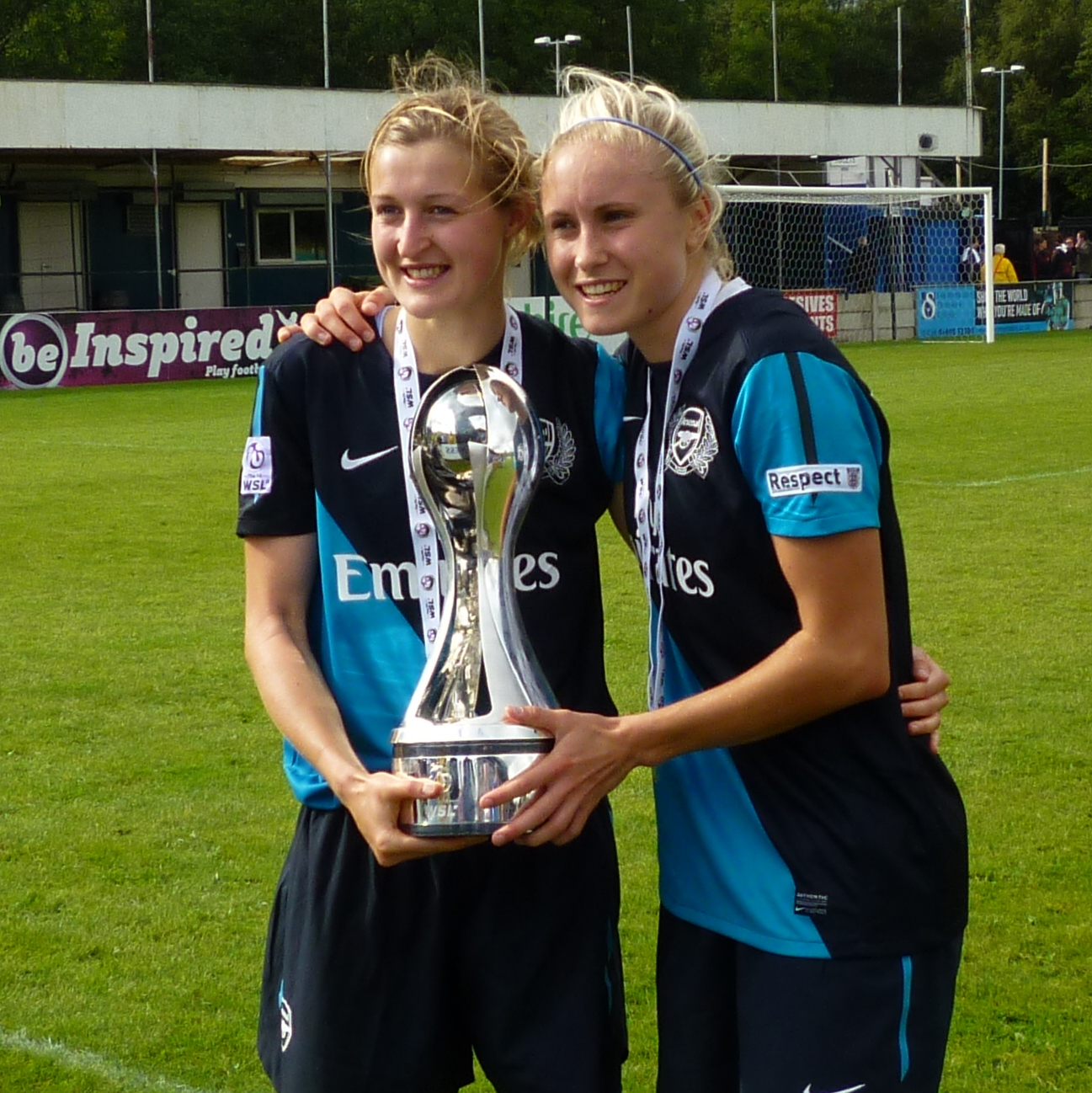 Arsenal Ladies footballers Ellen White and Steph Houghton holding the FA WSL trophy.